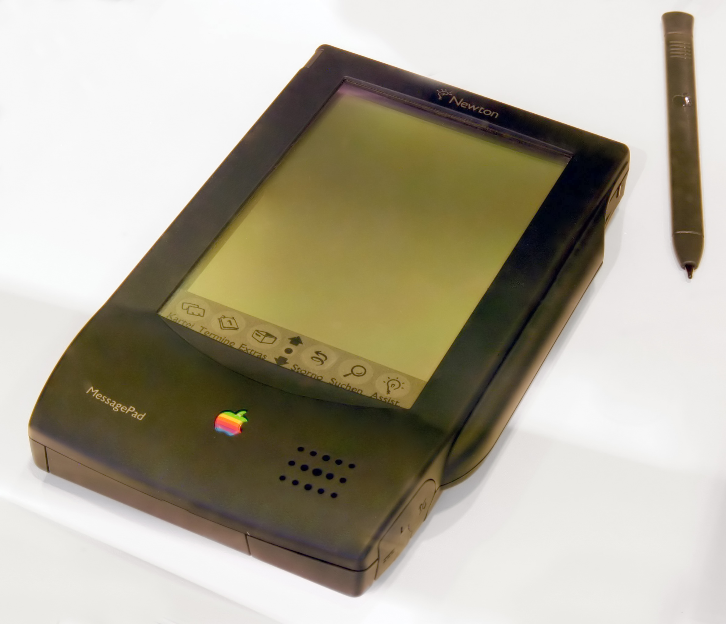 Photograph showing Apple Newton hand held computer, cleaned up background in photo editing software